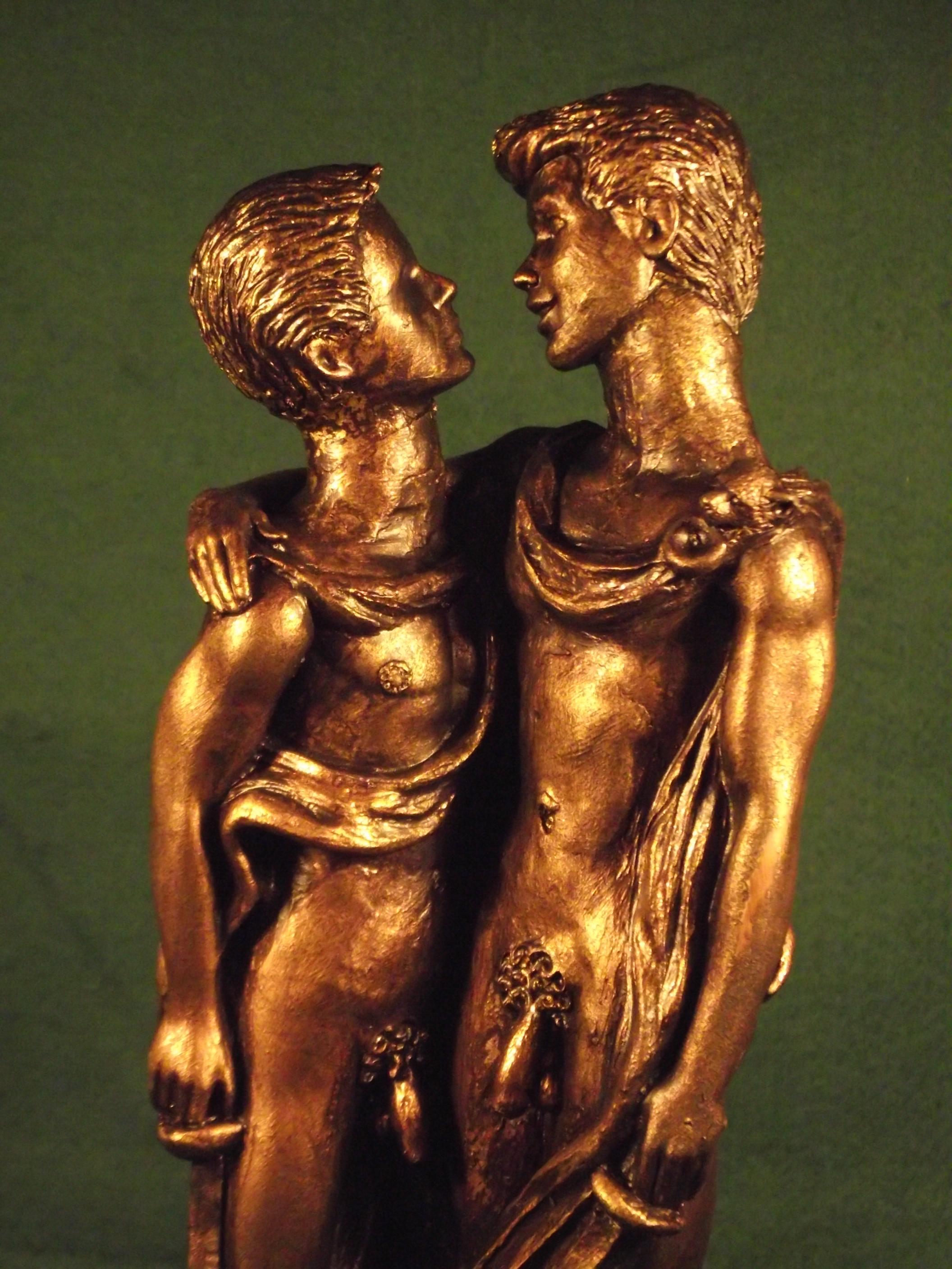 Band of Thebes. Composite constructed sculpture of historical figure(s) reputed to have had a same sex relationships. Made of various materials & found objects with thin veneer film of bronze patina-ted paint giving appearance of solid bronze. A Metaphor of the appearance of solidity of LGBT rights & equality in law in the UK. Created by artist Malcolm Lidbury for 2016 LGBT History & Art Project Cornwall UK.